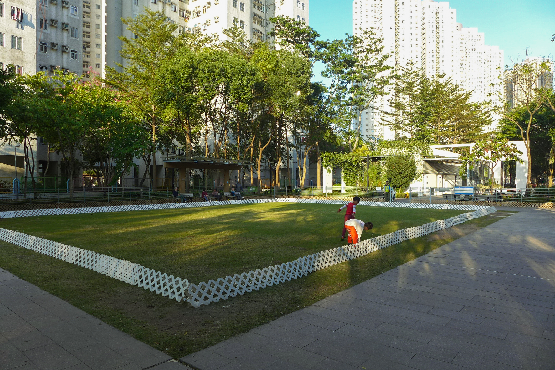 Fan Leng Lau Road Playground